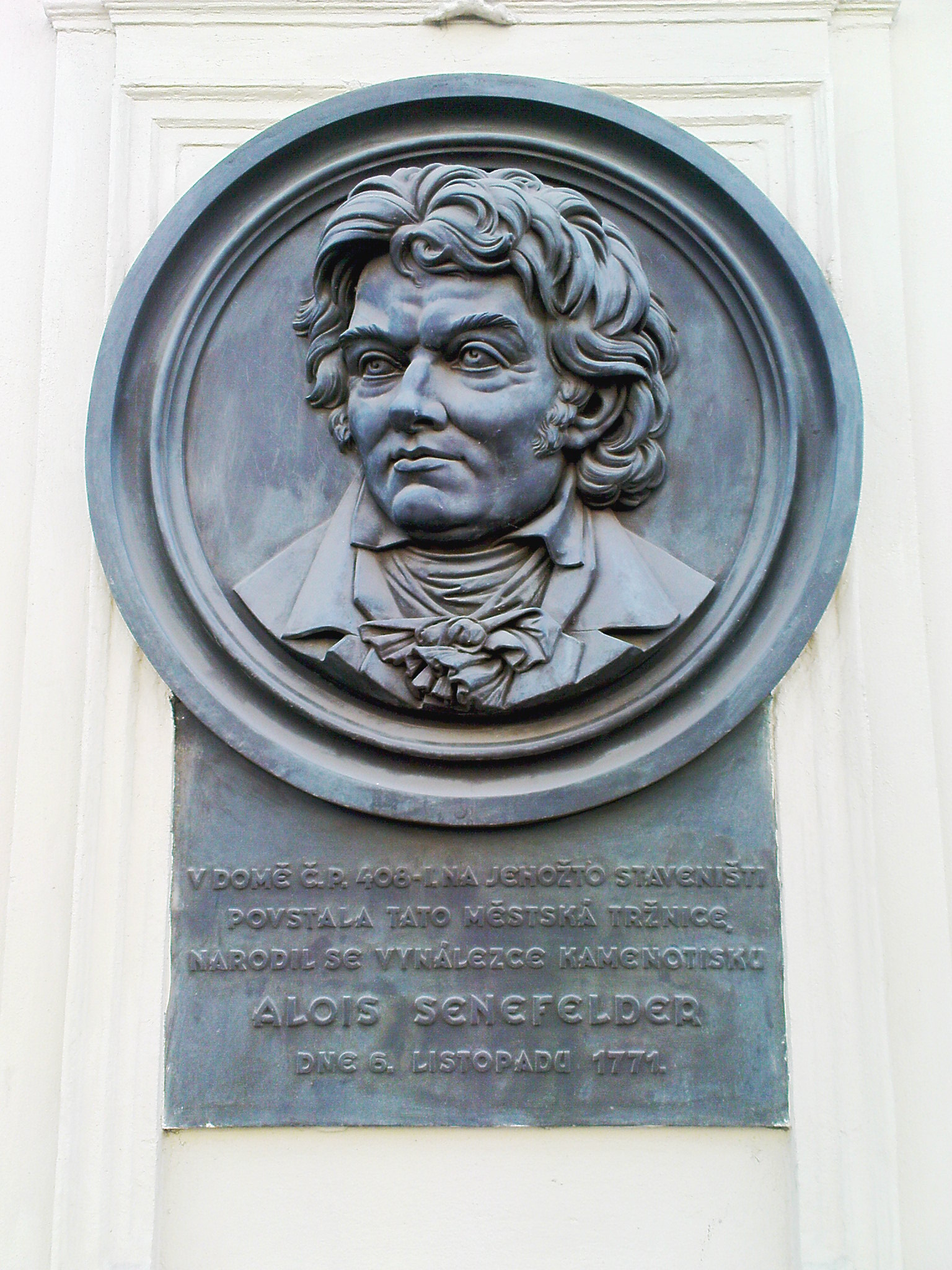 Alois Senefelder, inventor of litography—relief on the building of Old Town market-hall in Rytířská street (Prague 1), in place of his birthhouse